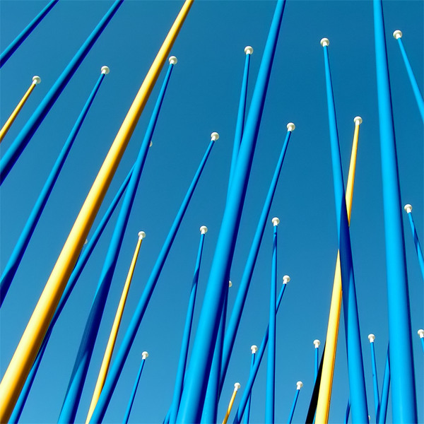 Cloetta center